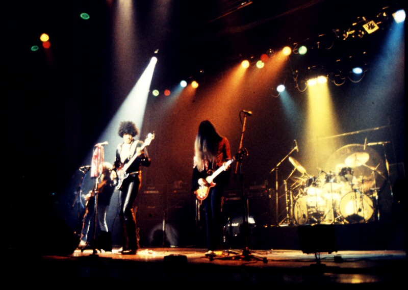 Thin Lizzy, Chateau Neuf, Oslo, Norway